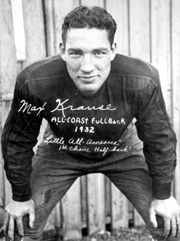 photo of Max Krause in 1932